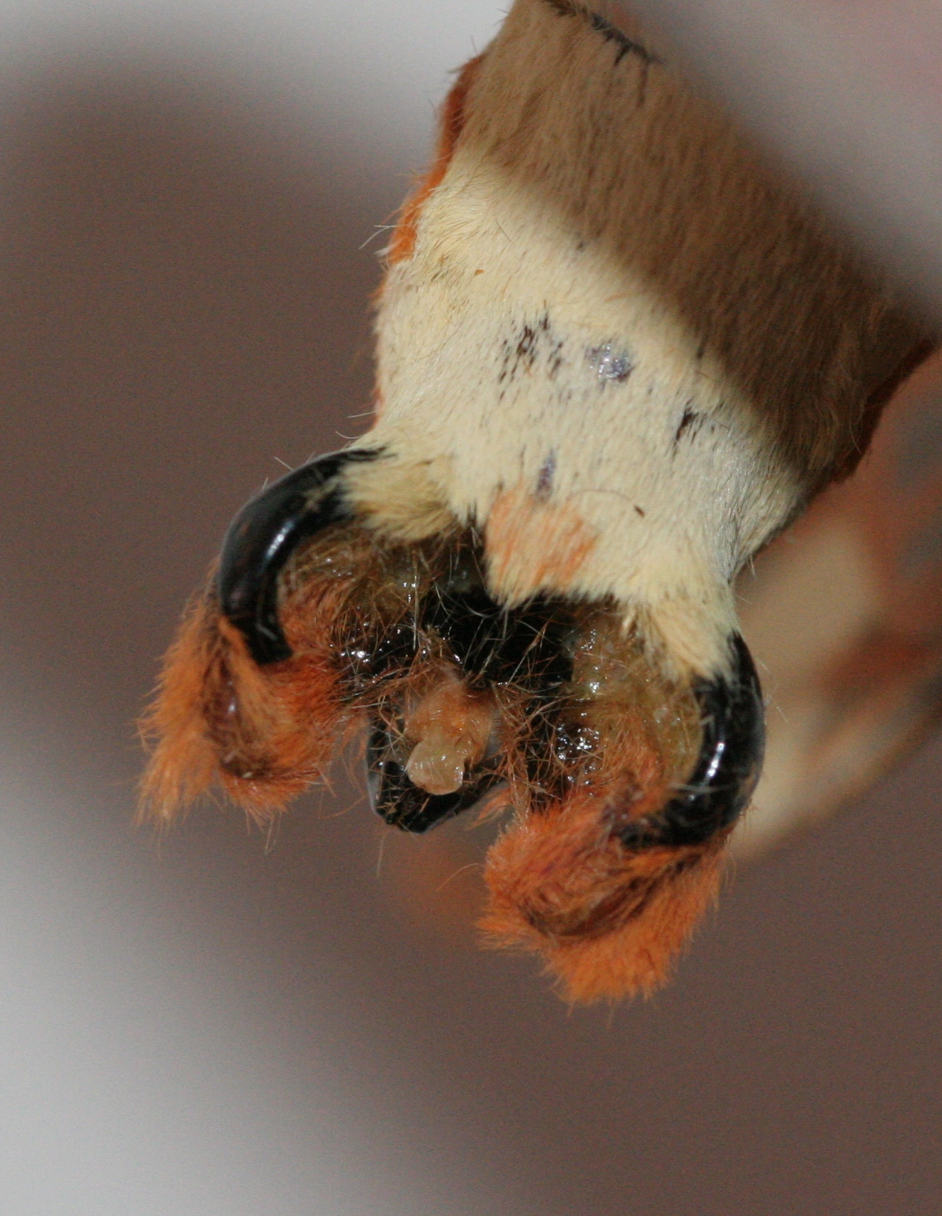 Male Regal Moth (Citheronia regalis) showing open claspers.